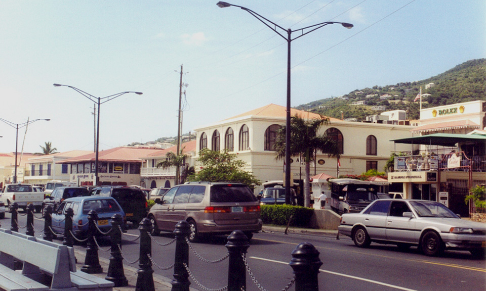 Some of the stores in downtown Charlotte Amalie, St. Thomas, U.S. Virgin Islands. The shoppers are mostly on Main Street (Dronningsgade), one block inland.